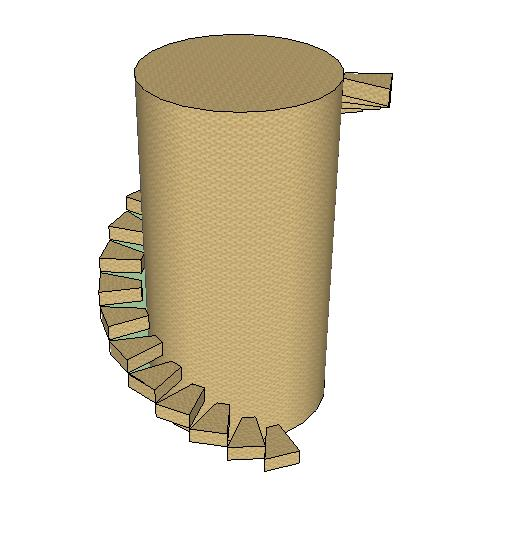 A spiral stair made whith Google Sketchup